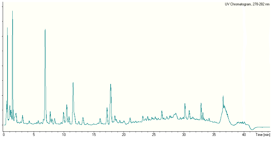 45 min LC chromaogram of a red wine